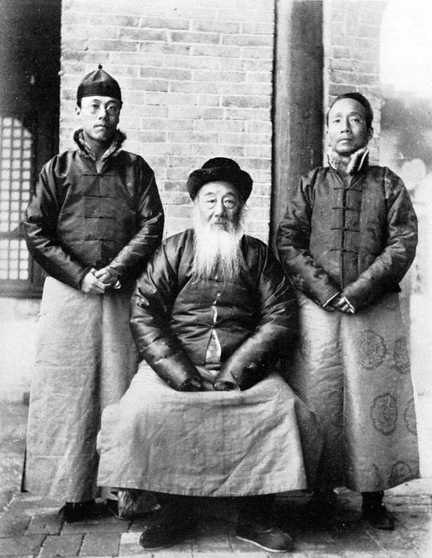 Pan Zhen (1851-1926)